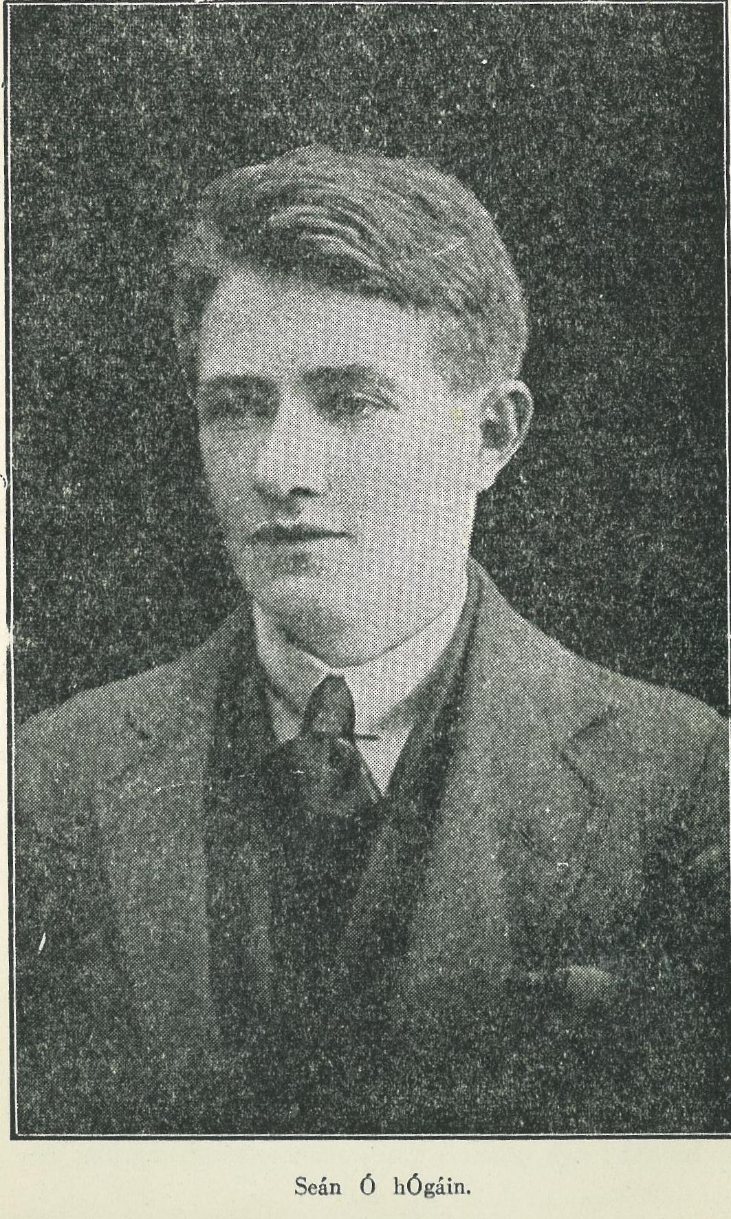 Sean Hogan circa 1919